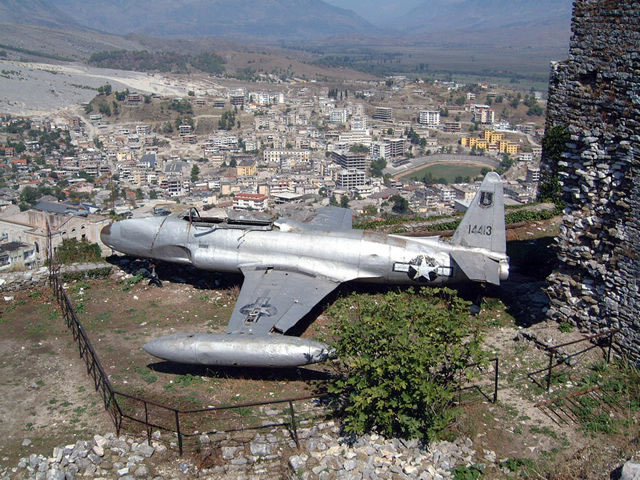 Picture of a derelict U.S. Air Force T-33A Shooting Star (s/n 51-4413) at the "National Weapons Museum" in Gjirokastra, Albania. The aircraft had been forced down on 23 December 1957.